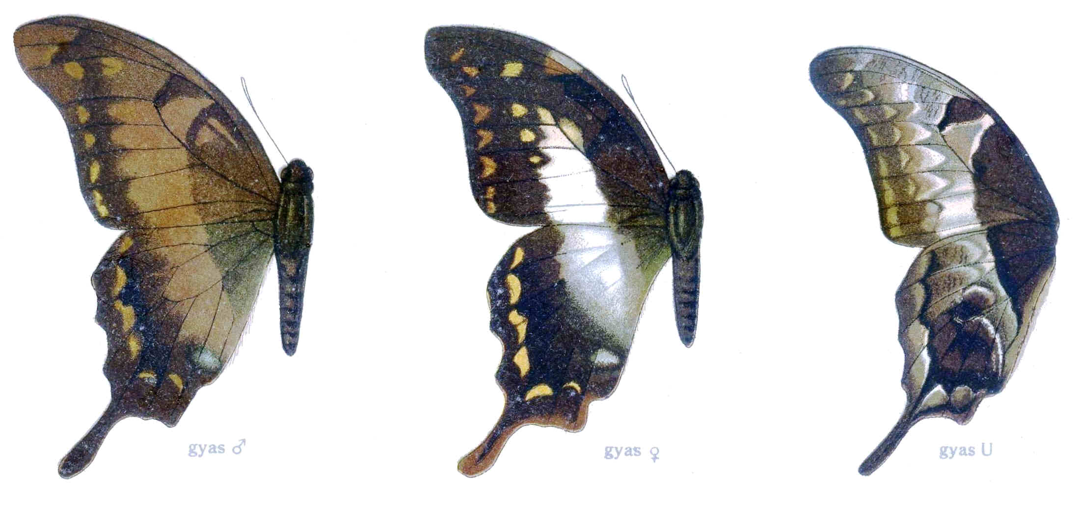 c.1.: Brown Gorgon, male, upperwing; c.2.: Brown Gorgon, female, upperwing; c.3.: Brown Gorgon, underwing